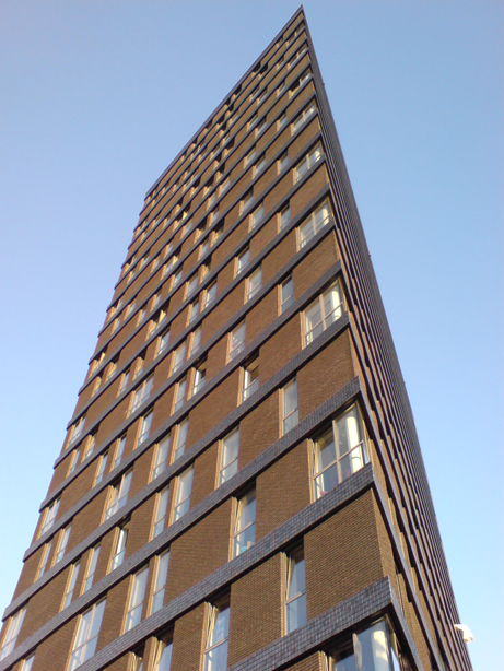 Student housing 'De Bisschoppen' in Utrecht.